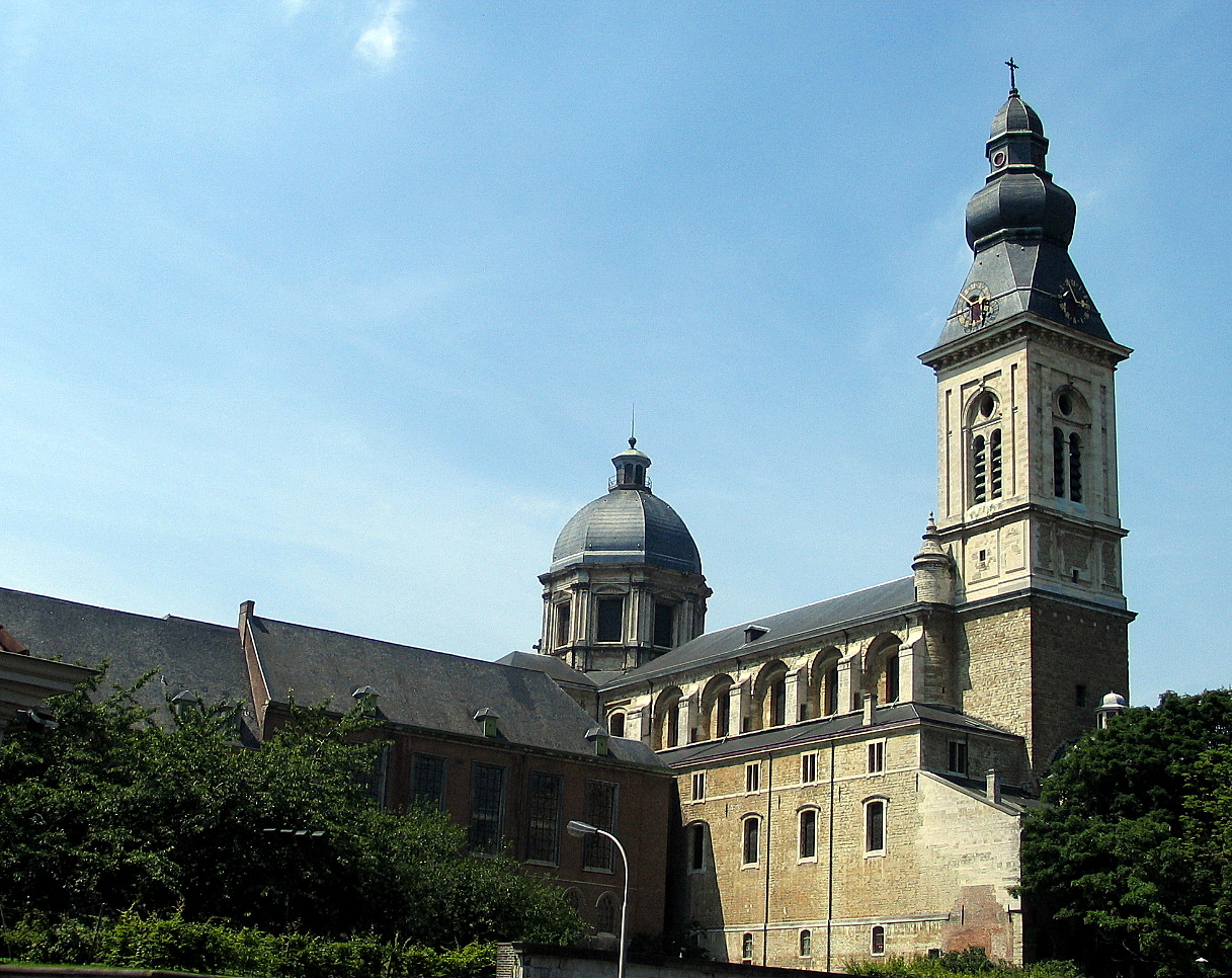 Church of Our Lady and St Peter and the Saint Peter abbey in Ghent (België)